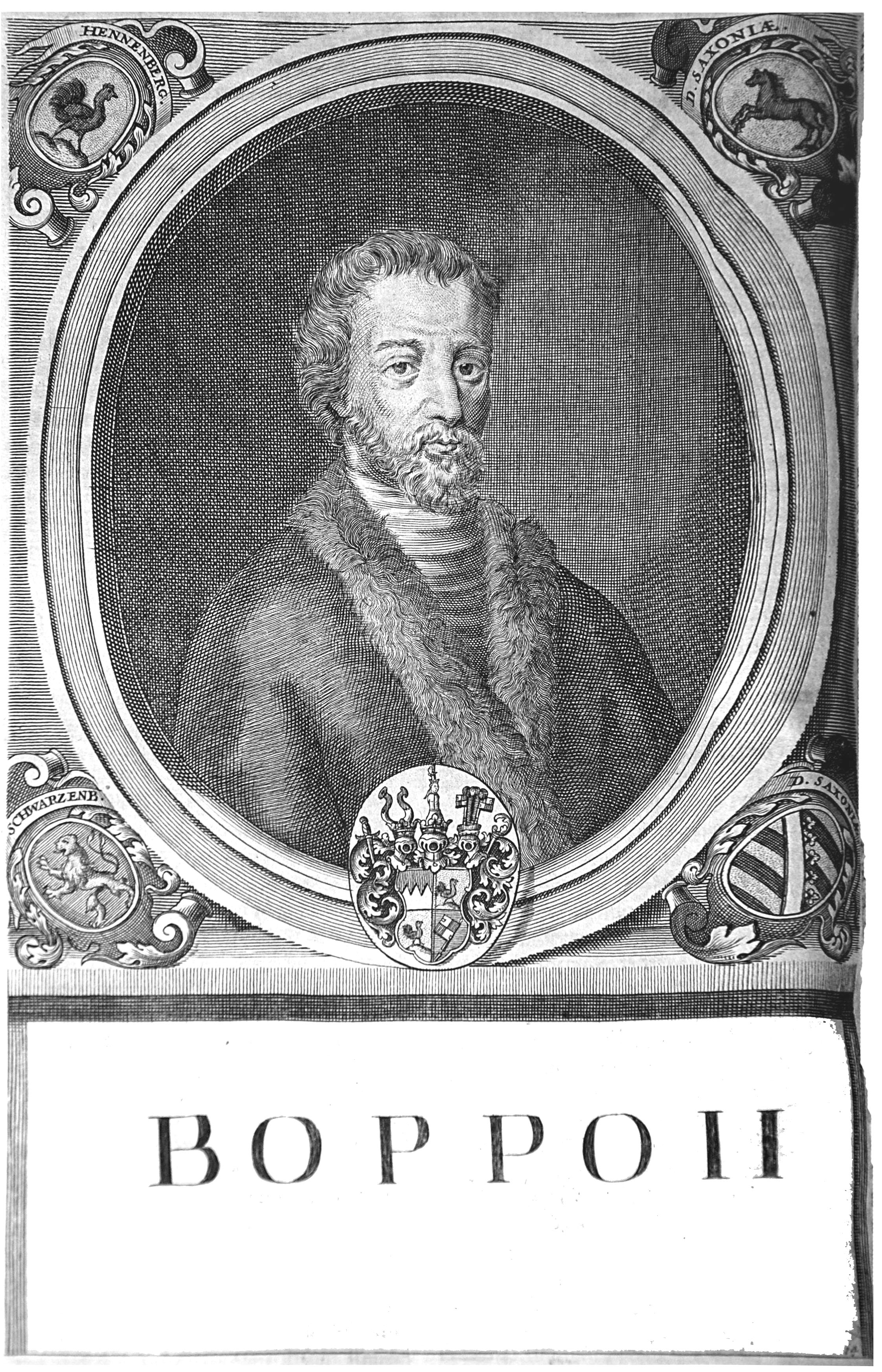 Poppo 961-983 Bishop of Würzburg.